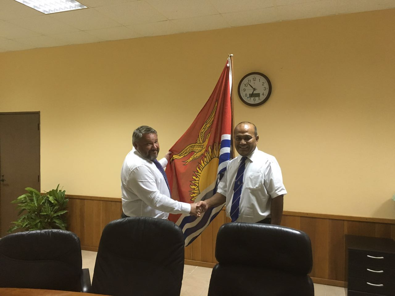 Anton Bakov and Tebao Awerika